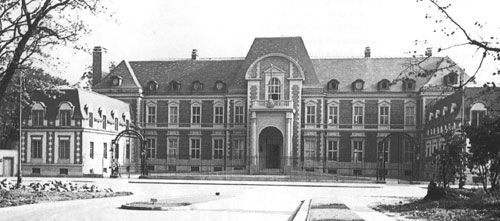 Branickich Palace, French Ambassy in Warsaw before WW2.